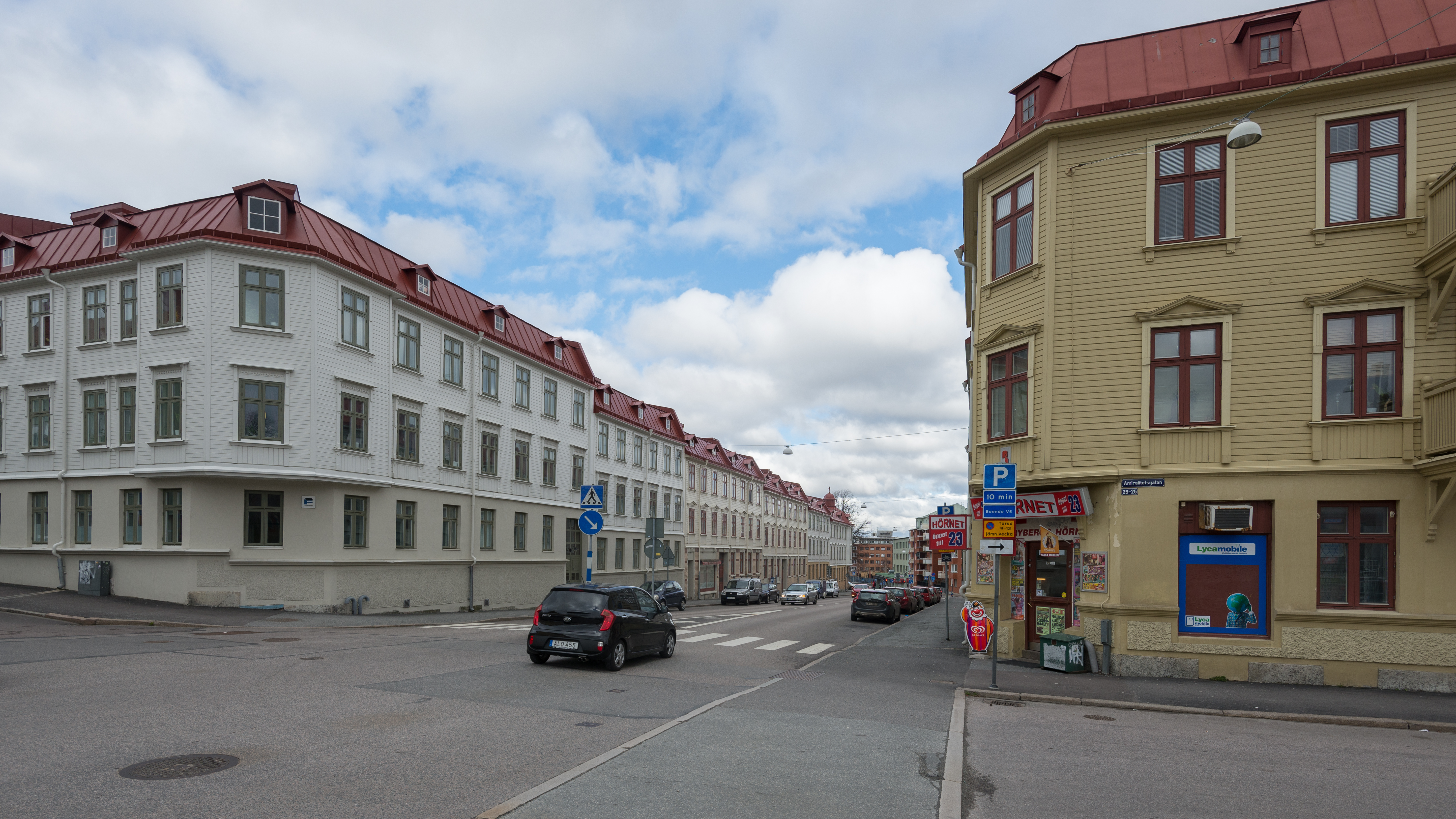 Buildings in Majorna, Göteborg. City blocks Jordklotet and Eskulapius.